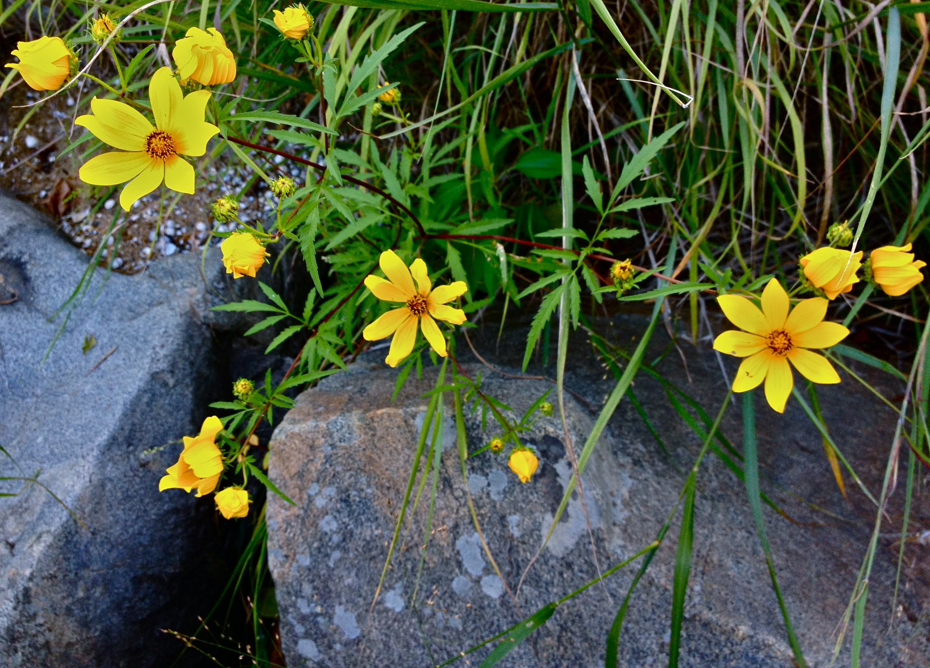 Photo of Bidens aristosa in flower. This is a native plant growing wild in the C & O Canal National Historic Park, Montgomery county Maryland, USA. This species is a member of the Asteraceae family.